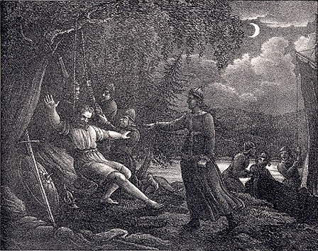 Captioned as "Konung Agne blir om natten upphängd i ett träd av Skjalf och hennes medfångne Finnar", according to the source page. Etching by Hugo Hamilton, depticting the king Agne being hanged by his wife Skjalf. Original image size approximately 17 x 22 cm.